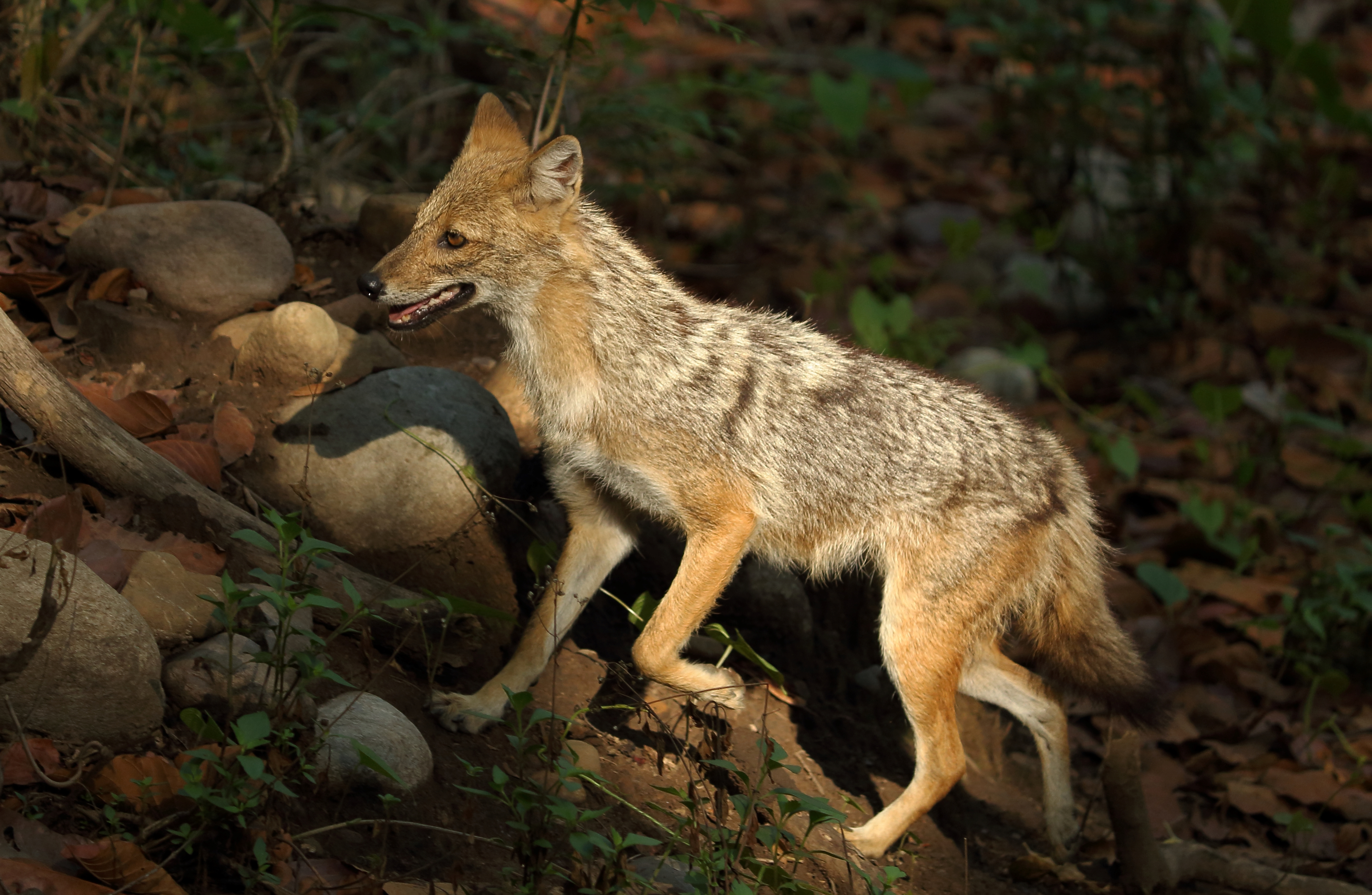 This indian jackal was coming towards my safari vehicle in my way to dhikala zone situated in jim corbett national park ,when it crossed the road to enter into the forest which had ample shadows of tress right then lights through the trees made a spotlight on it , this was a very cheering moment for me and i din't missed the opportunity. It was a nature in focus moment.